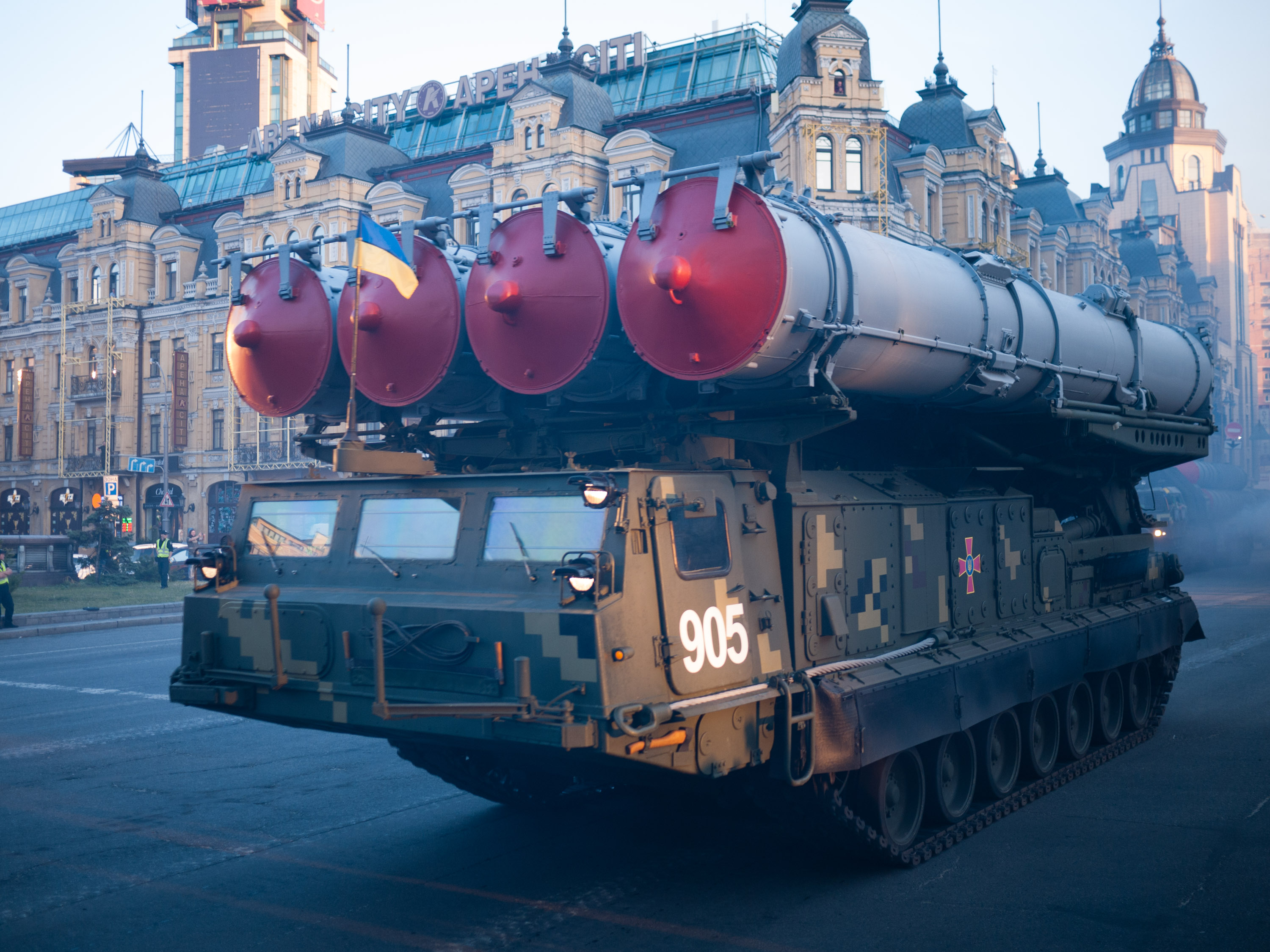 S-300V surface-to-air missile system, rehearsal for the Independence Day military parade in Kyiv, 2018